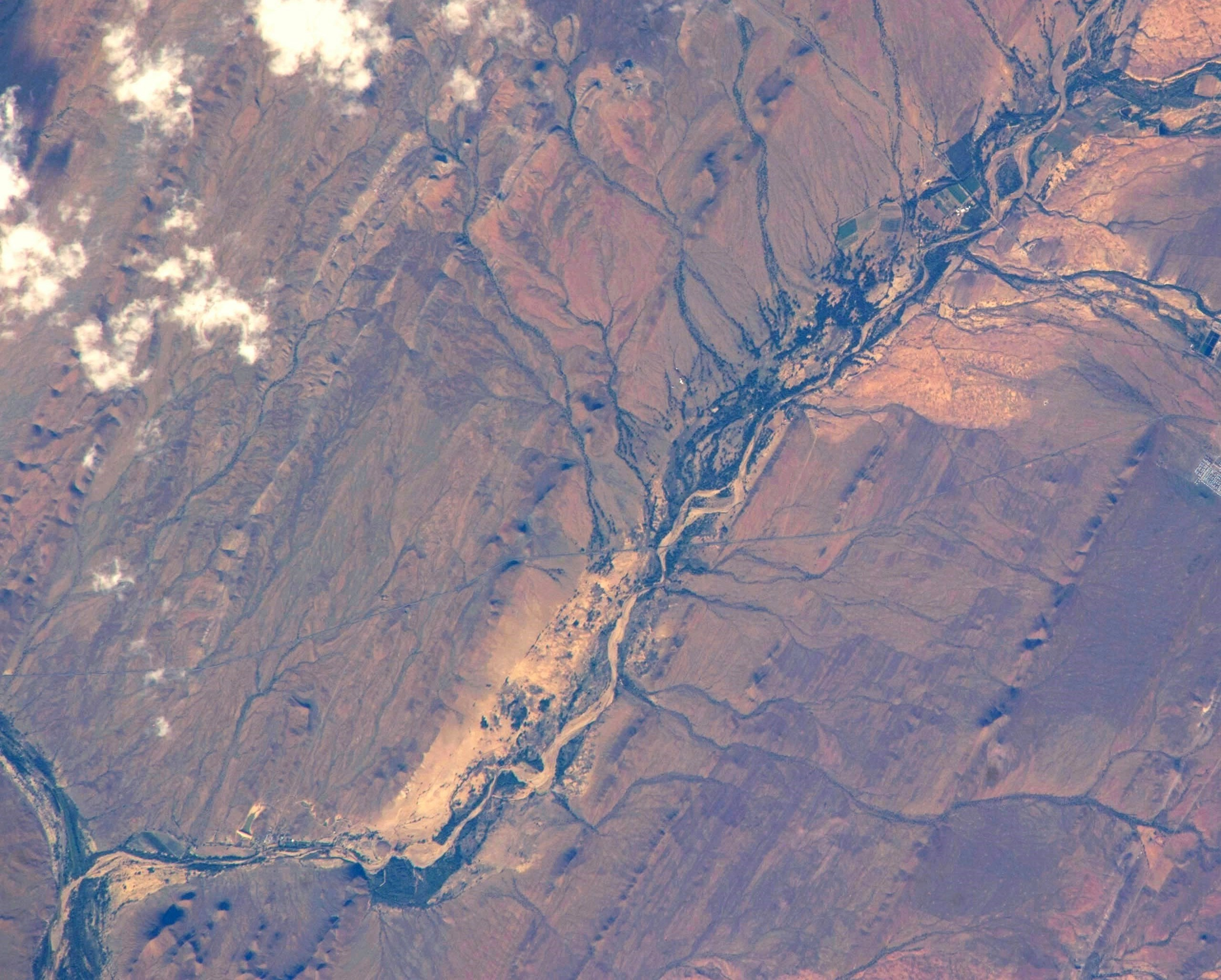 The dry course of the Sand River, forming a diagonal on the photo, has its confluence with the Gamka River at bottom left, in the vicinity of Prince Albert in the Great Karoo, South Africa